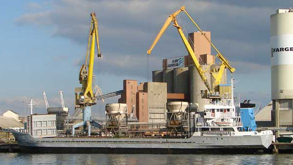 The general cargo ship Velox (85.75 m, 3,502 DWT) unloading rapeseed in Brest.